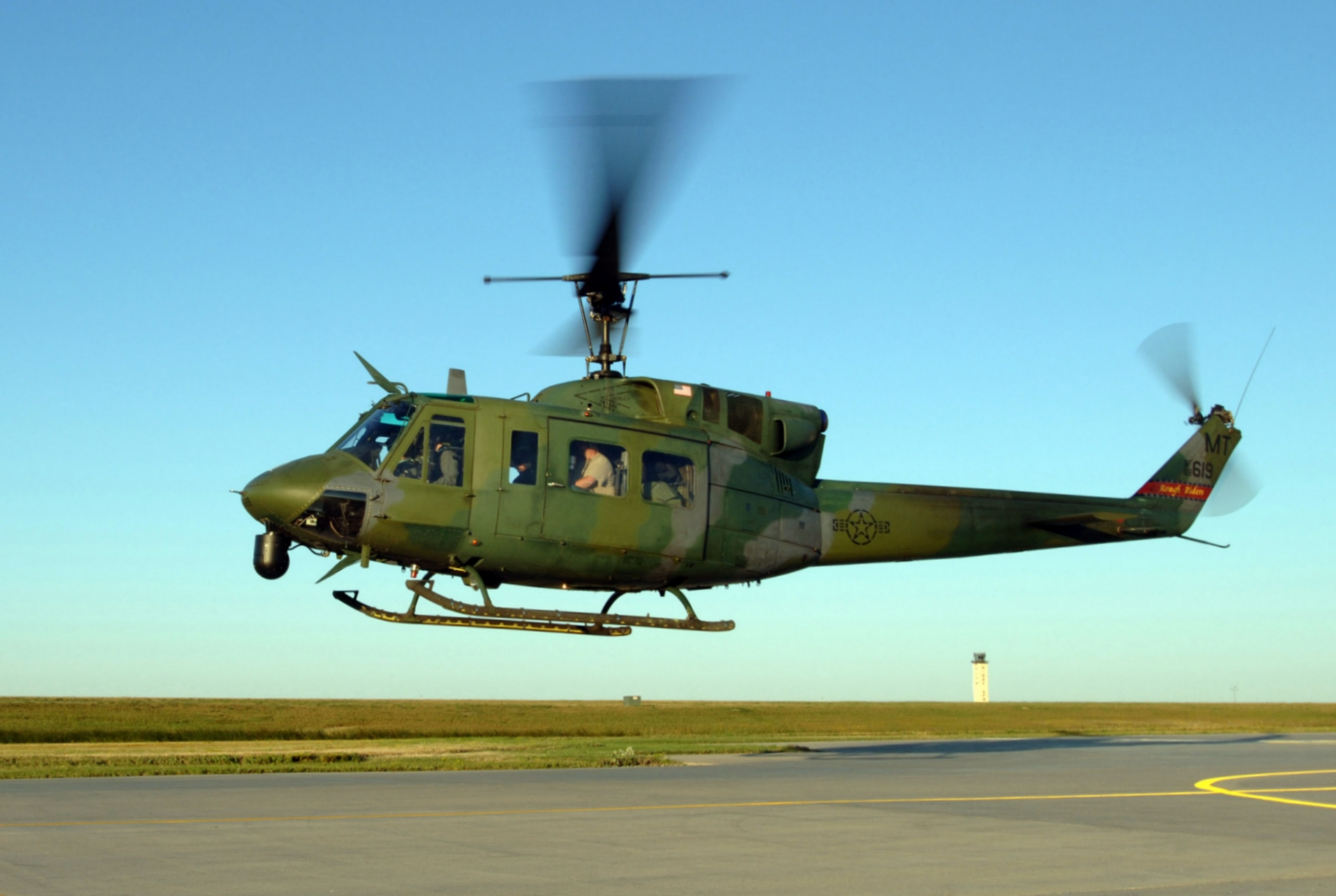 A U.S. Air Force Bell UH-1N Huey helicopter (s/n 69-6619) from the 54th Helicopter Squadron, 91st Missile Wing Rough Riders, takes off at Minot Air Force Base, North Dakota (USA), on 2 September 2005 for Columbus Air Force Base, Mississippi (USA), to assist in the Hurricane Katrina disaster relief efforts. Thirteen people and a helicopter from the 54th Helicopter Squadron were deployed to aid the recovery.